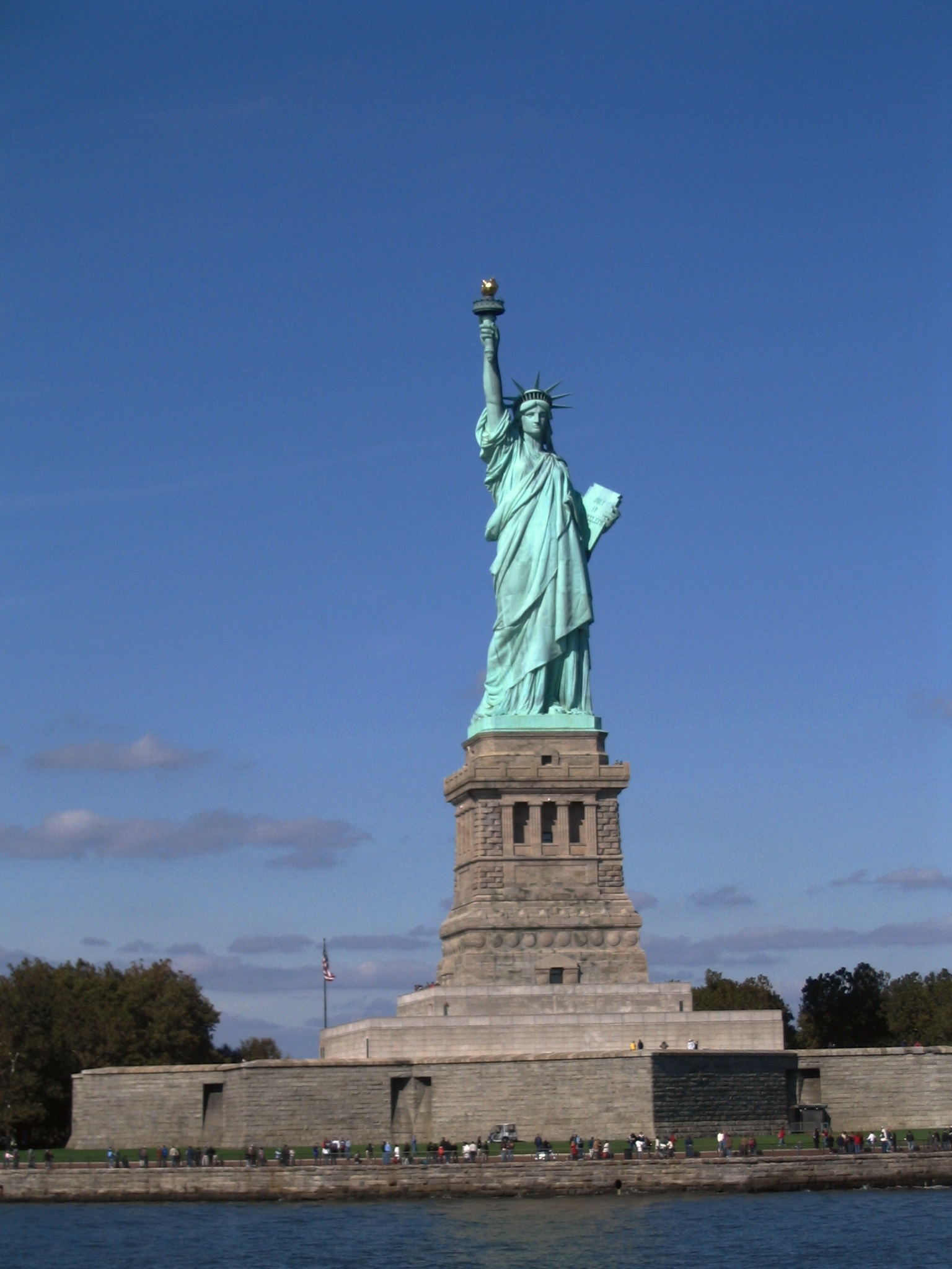 Statue of Liberty